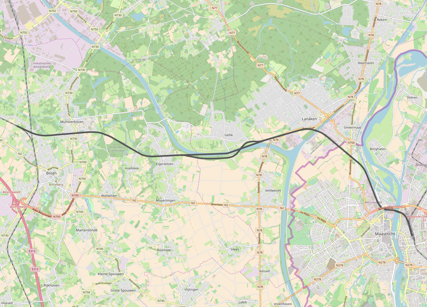 Belgian Railway Line 20, Y Beverst - Maastricht